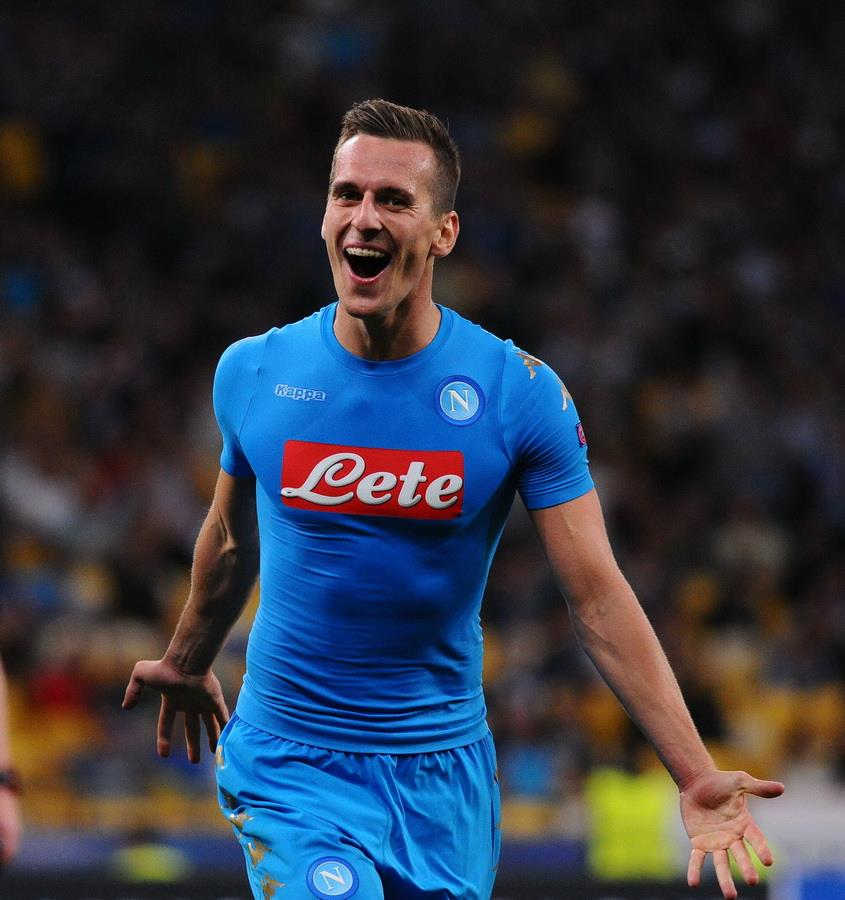 Arkadiusz Milik playing for Napoli in Champions League match against Dynamo Kiev